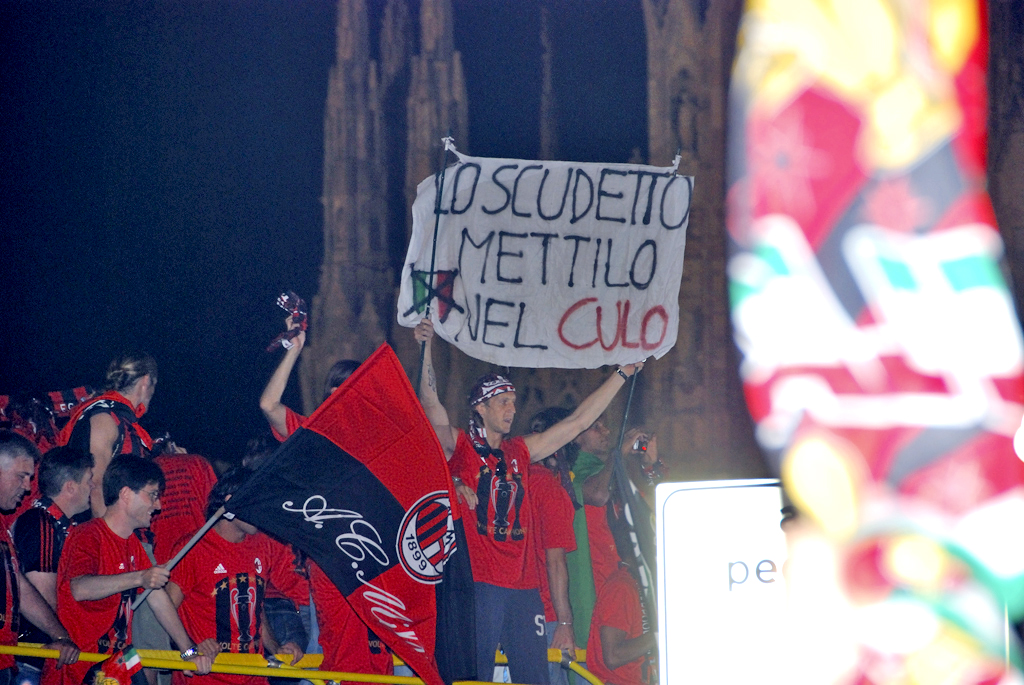 AC Milan footballer Massimo Ambrosini wielding a polemical banner which reads "Lo scudetto mettilo nel culo" (roughly translation: "Put the championship title in your ass"). The photo was taken at the end of the 2006-2007 season, when FC Inter Milan, another club from Milan (Italy), achieved the italian football league. Some days later AC Milan won the Champions League, and this led to the reply.